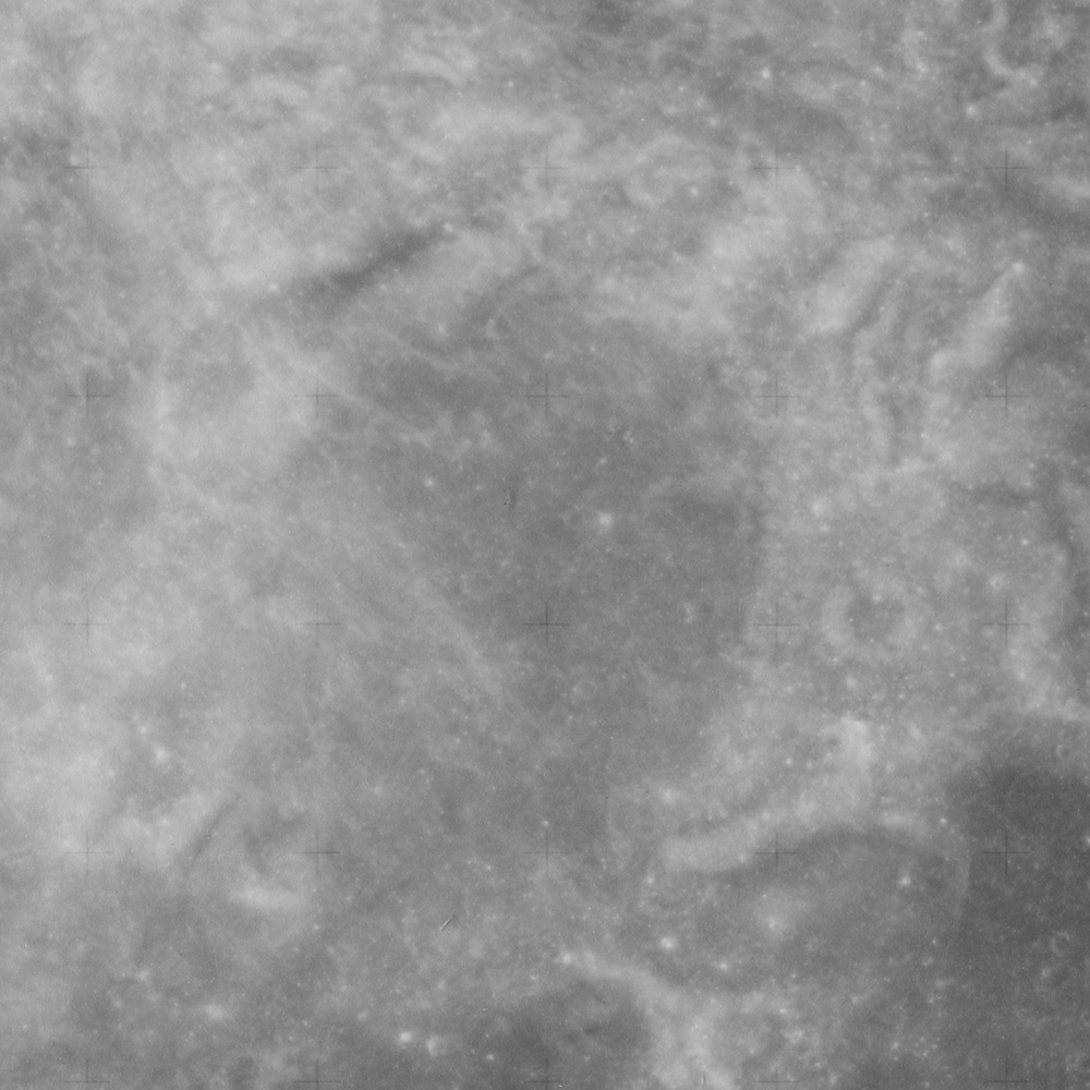 Ibn Yunus (crater), on the moon. Camera altitude 158 km, sun elevation 61 deg.